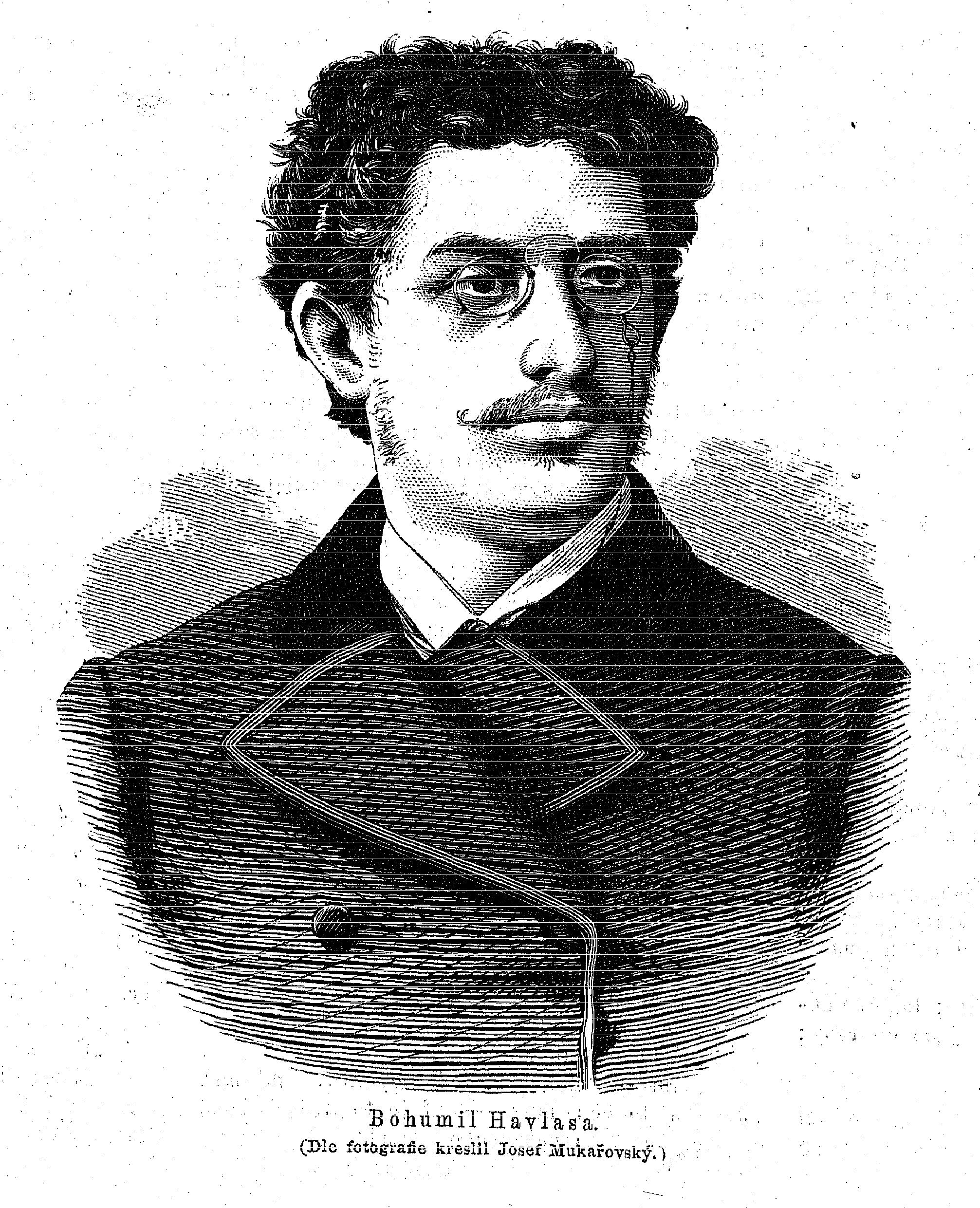 Portrait of Bohumil Havlasa (1852 - 1877), Czech writer, journalist and mercenary in Russo-Turkish War